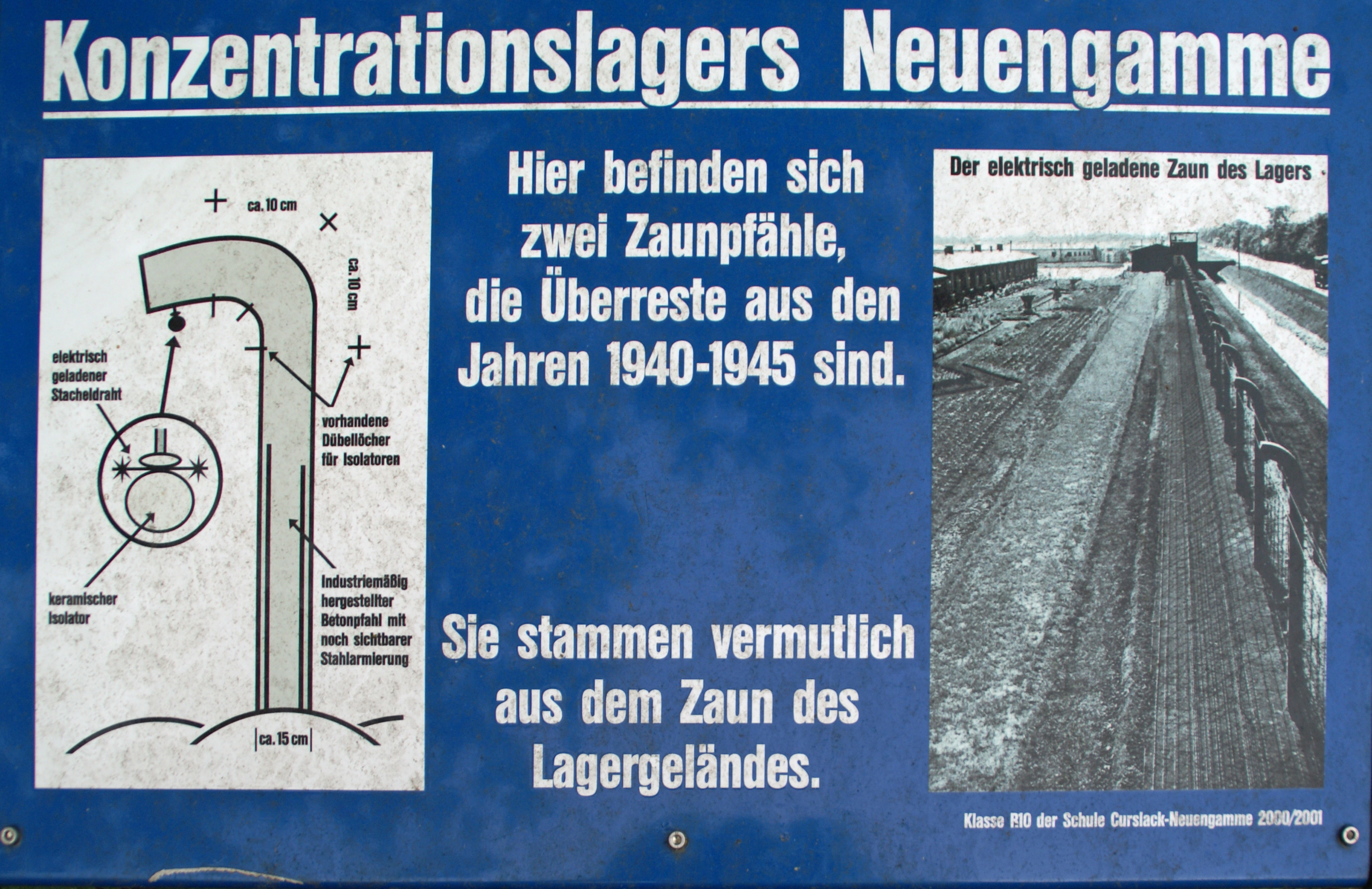 Hamburg (Neuengamme), Germany: Information plaque over the two poles from the former camp at the bank of the river Dove Elbe